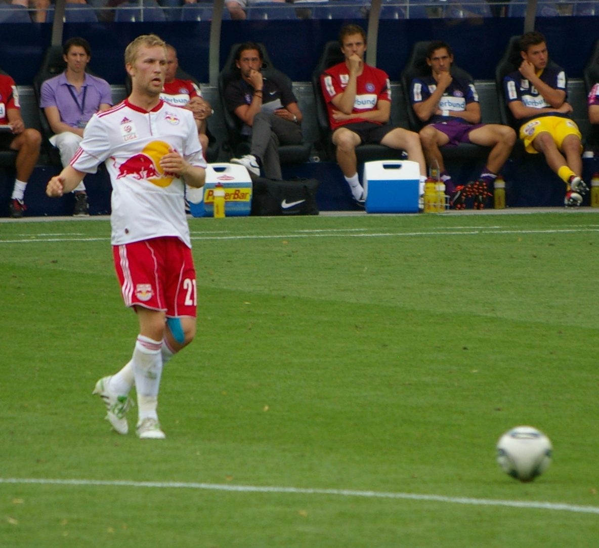 midfielder FC Salzburg